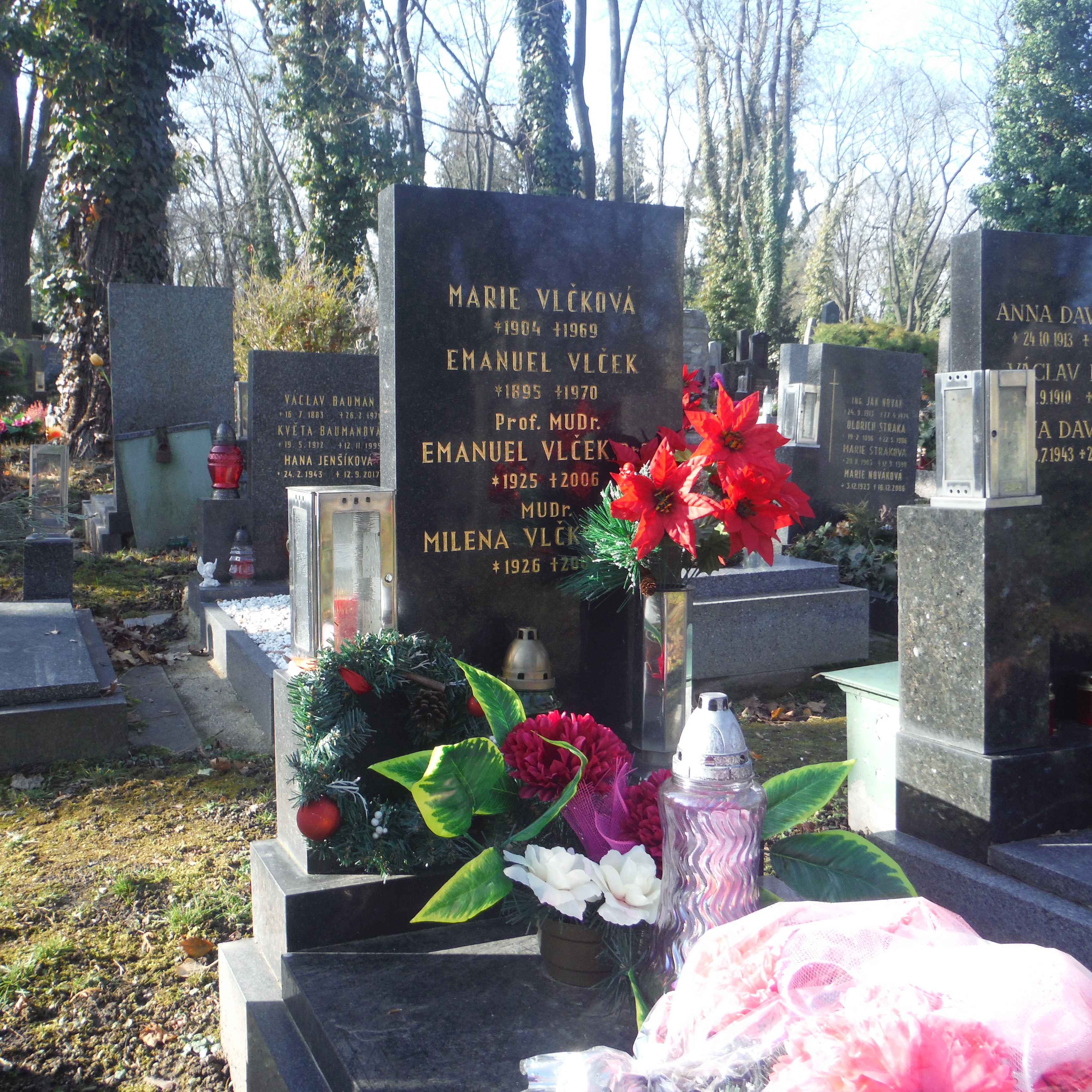 Grave of Emanuel Vlček at Malvazinky Cemetery in Prague